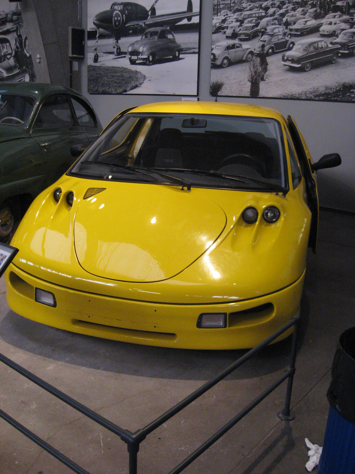 Solon 2000 (1994)